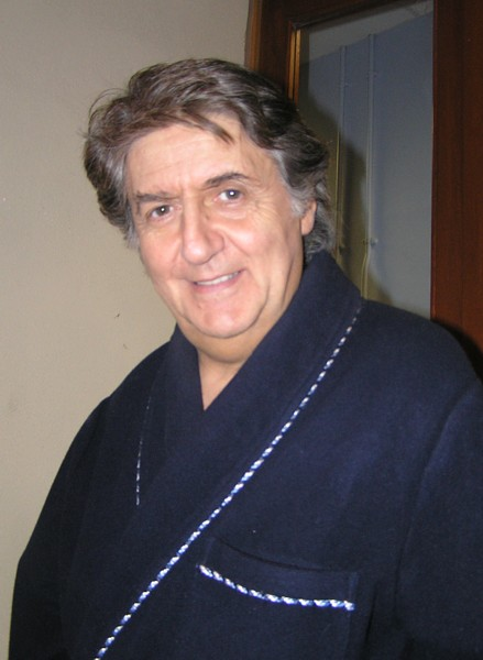 Tom Conti photographed in 2007 in his dressing-gown-and-slippers stage outfit when he was starring in the play Romantic Comedy in Glasgow. This photo was taken just outside the theatre after the play so does not breach any rules about unauthorised photography inside the building.